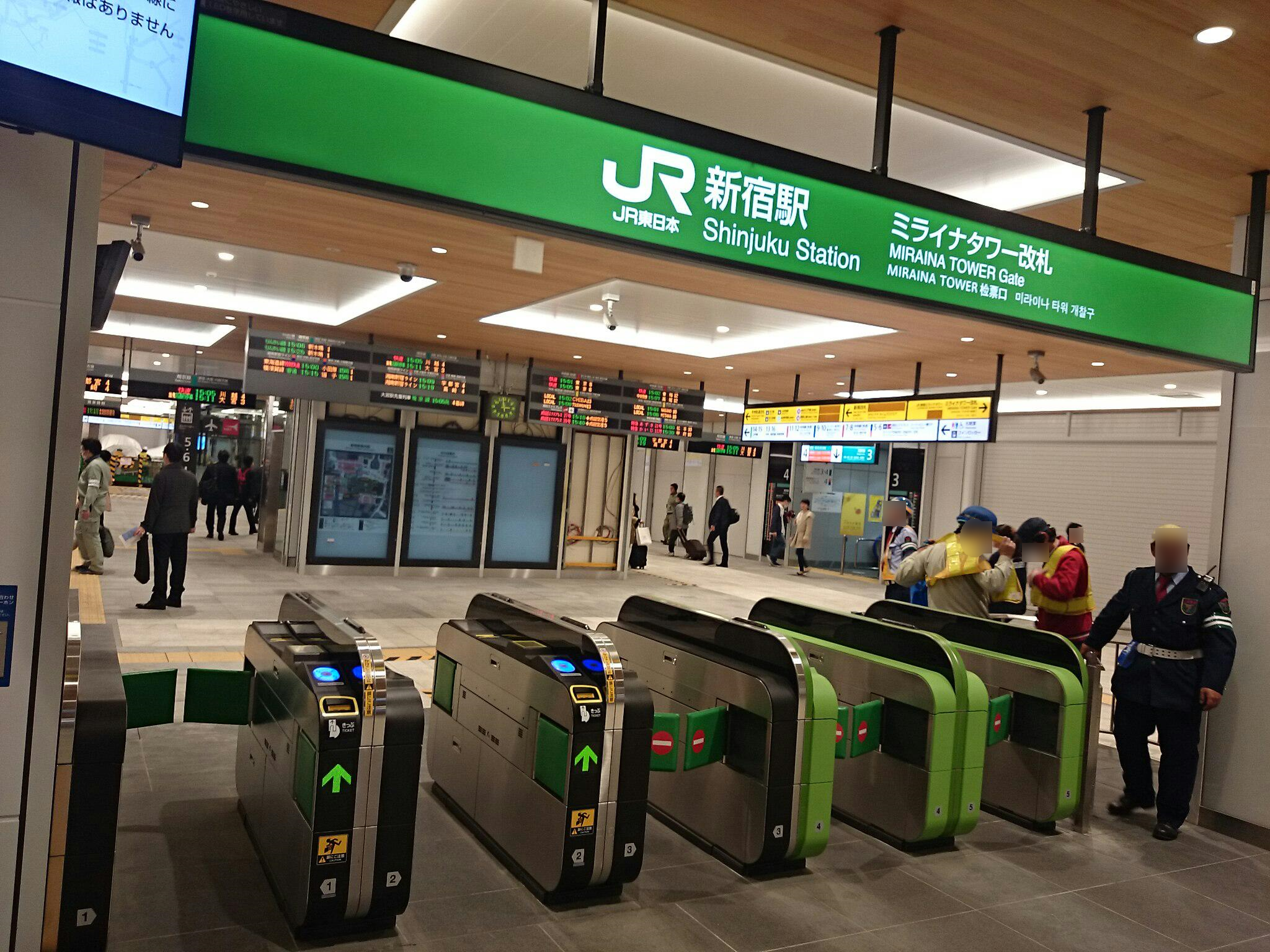 Shinjuku Station Mirainatower exit